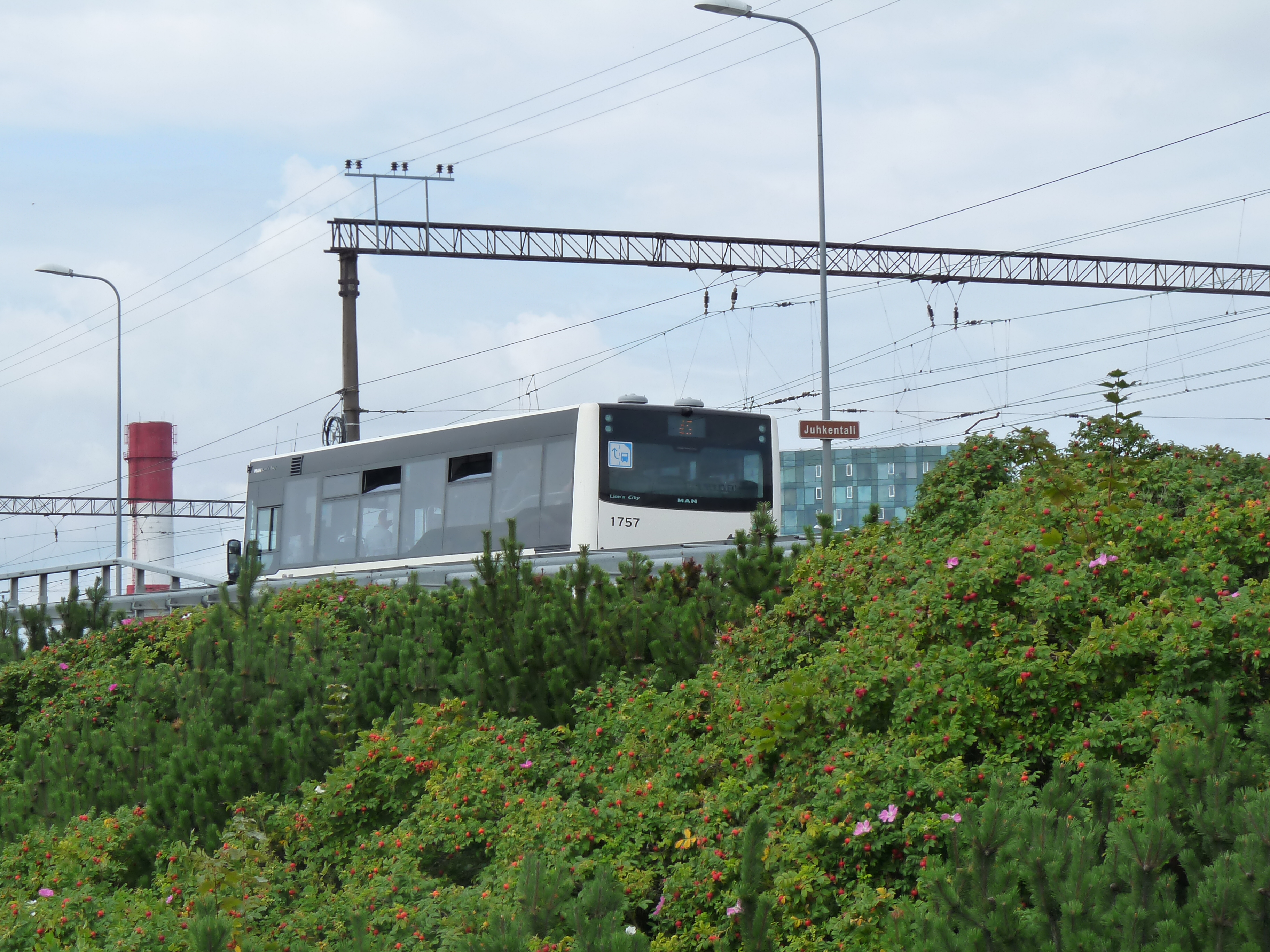 Public bus in Tallinn, Estonia